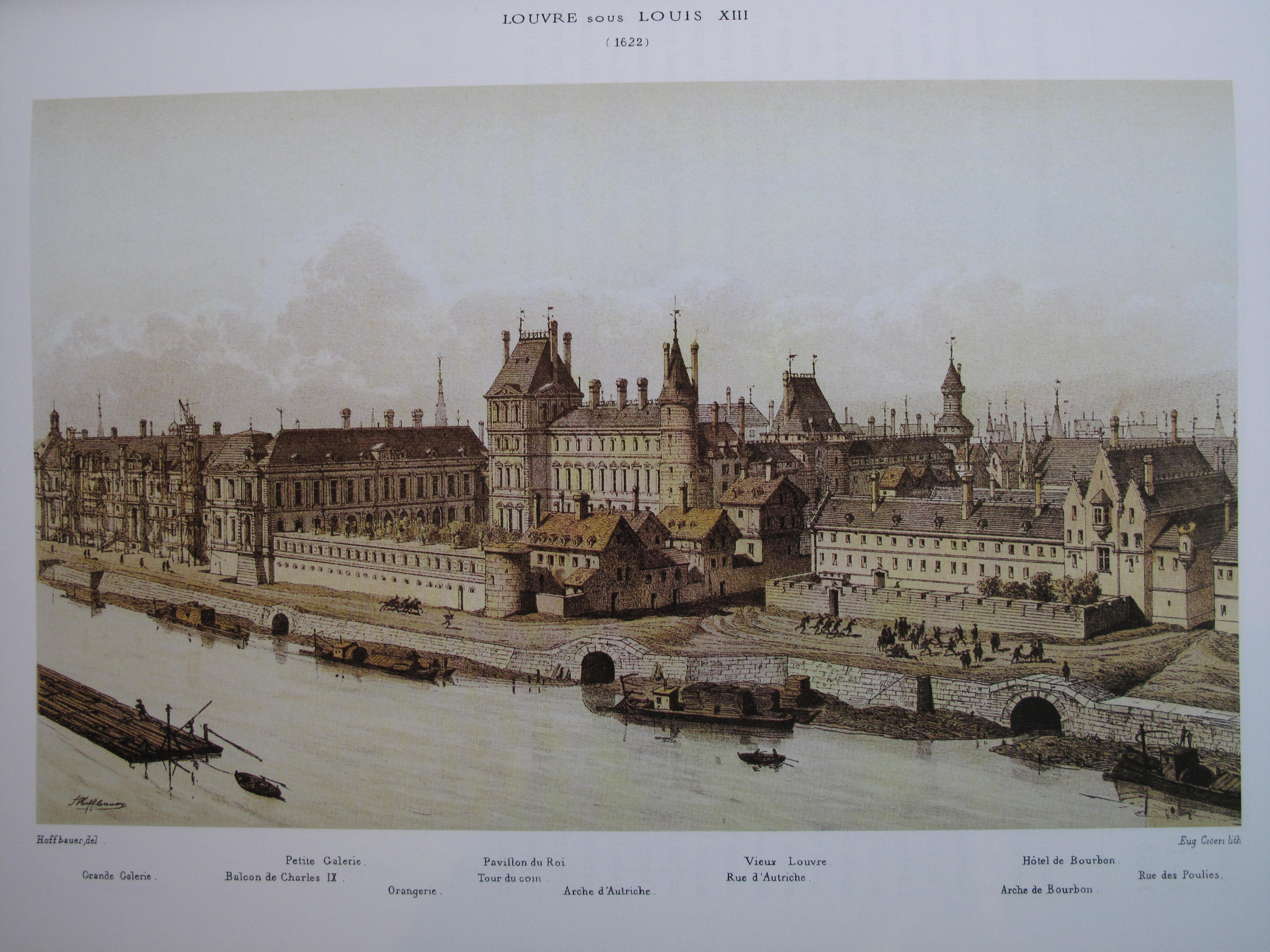 The Louvre (Paris, France) in 1622 at the time of king Louis XIII. The walls of Philippe-Auguste and of Charles V were destroyed and replaced by buildings of the palais du Louvre. The castle of Louvre is now hybrid, with a half medieval and preserved. And another half rebuilt in Renaissance style. The bottom part of the tour du Coion has been preserved.